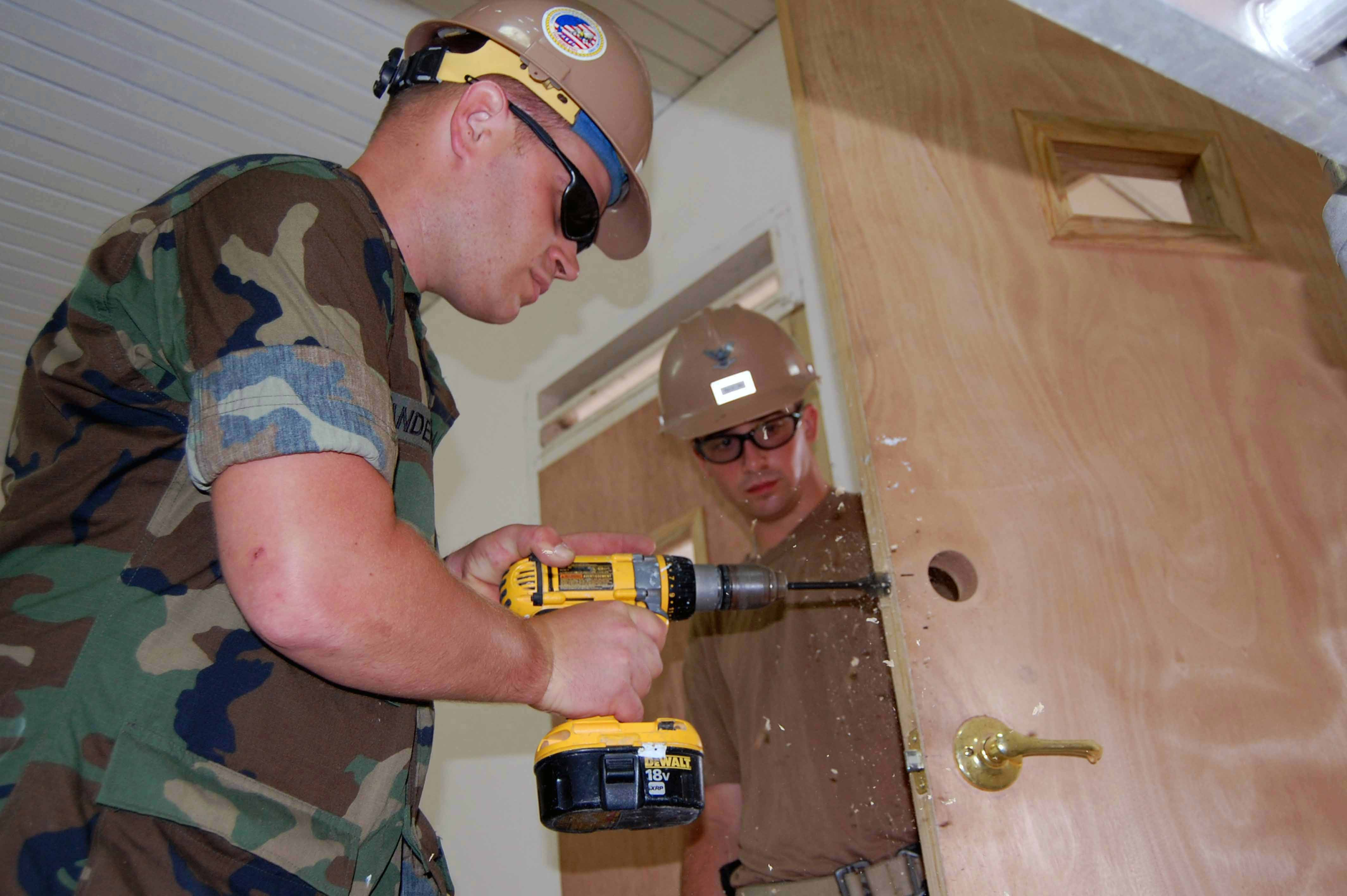 ST JOHNS, Antigua (May 13, 2009) Builder 2nd Class Jeff Anderson, left, and Construction Electrician 3rd Class Kyle Nixon, assigned to Military Sealift Command hospital ship USNS Comfort (T-AH 20) install a new door at a local mental hospital. Comfort is on a four-month humanitarian and civic assistance mission to Latin America and Caribbean region. (U.S. Air Force photo by Airman 1st Class Ashley Garcia/Released)